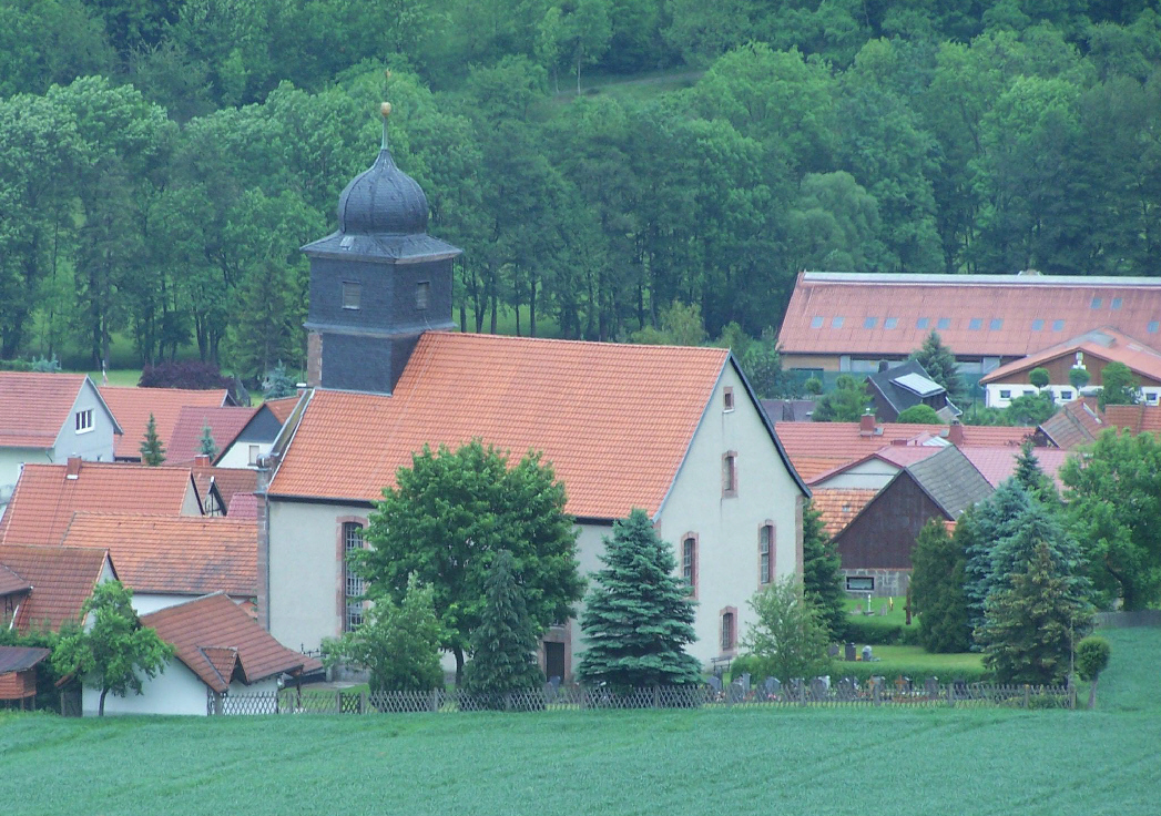 The church in Diedorf/Rhön seen from Höhn.